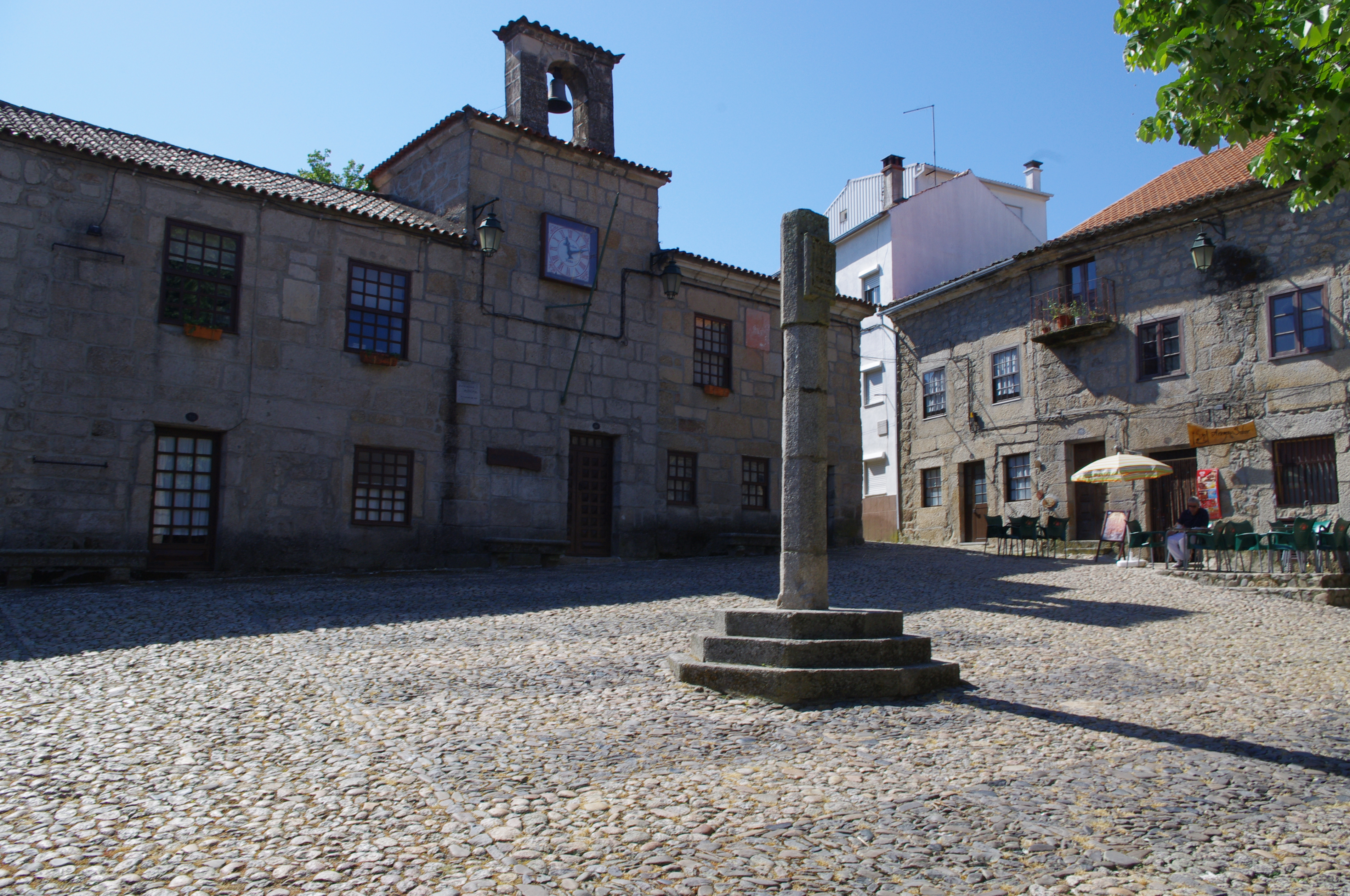 While Portugal originally resisted the Spanish Inquisition that began in 1492 and even provided refuge to a number of Spanish Jews fleeing for their lives from Spain, the Inquisition came to Portugal in 1536 and lasted until 1821. Countless thousands of Jews were slaughtered, often by being burned alive at the stake after undergoing horrible torture. Other Jews converted to Christianity but a number also became "Crypto-Jews" -- Jews who took on all the outer trappings of Christianity but remained true to their ancestral faith. Belmonte was one of the centers of the Crypto-Jews and today there is an active synagogue as well as museum dedicated to the town's Jewish history as well as the many citizens of the town who were murdered.